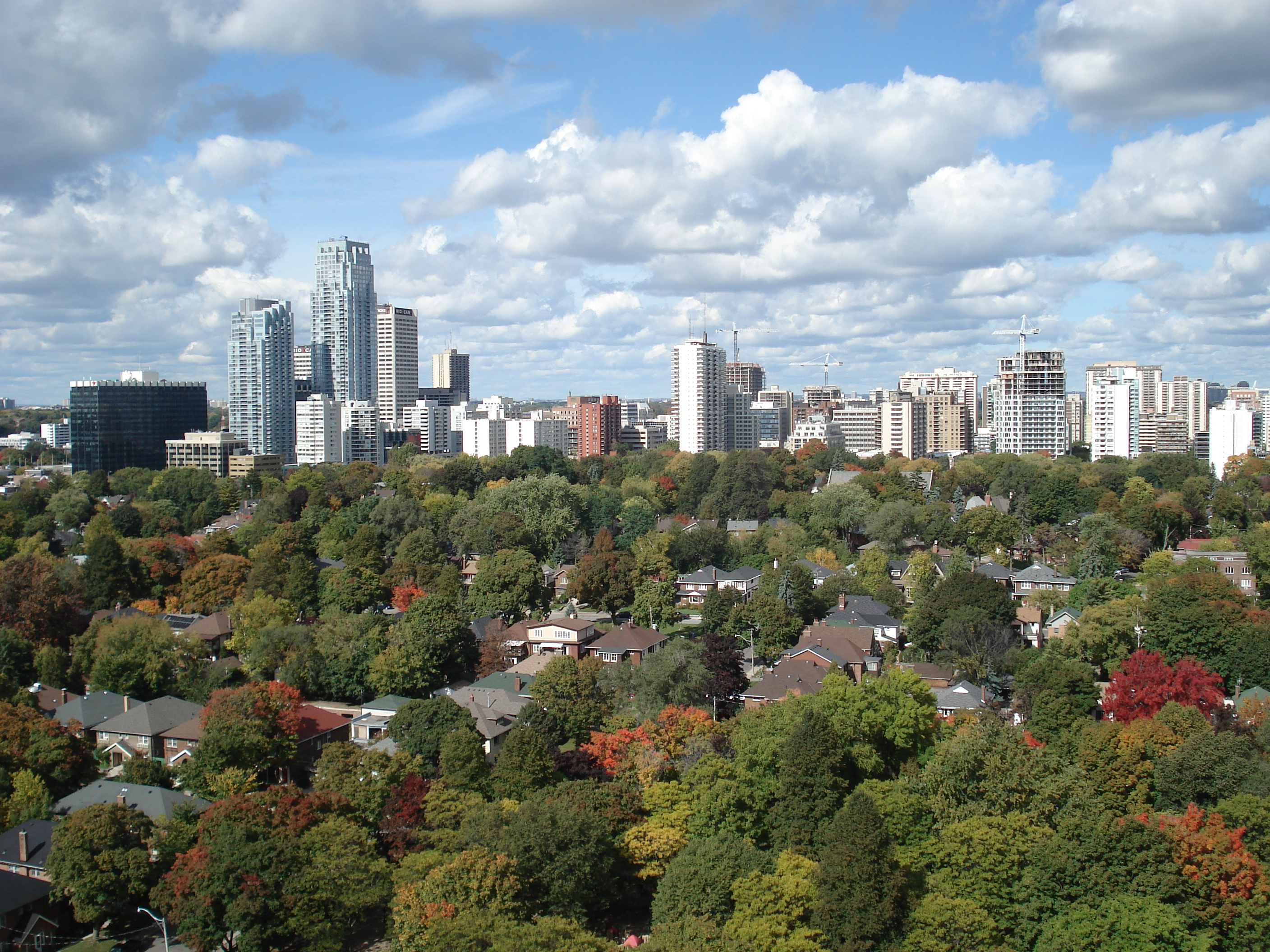 Shot from Balcony on Davisville Ave. Looking North West into towards Eglinton and Yonge